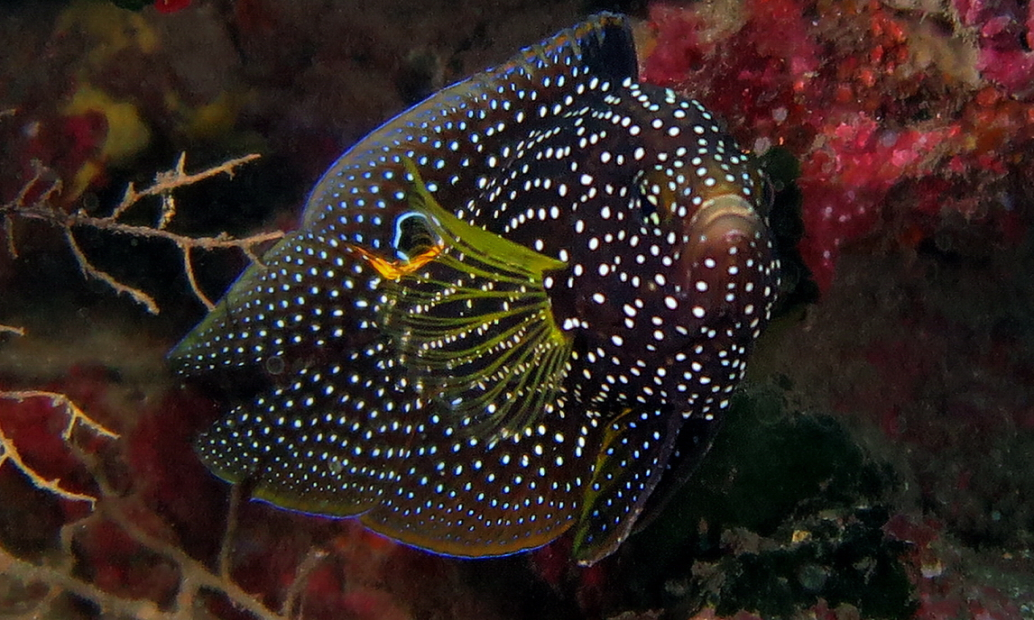 This is the front shot of a splendid marine betta (Calloplesiops altivelis). The fish was found at an underwater cave in the south shore of Long-Dong Bay, a famous diving site located at northeast coast of TAIWAN. The photo was taken by Vincent C. Chen on June 6, 2015